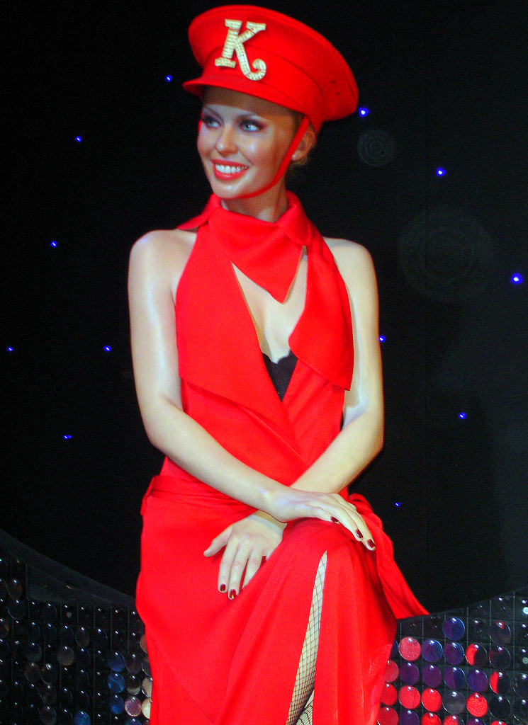 Madame Tussauds London - Kylie Minogue.